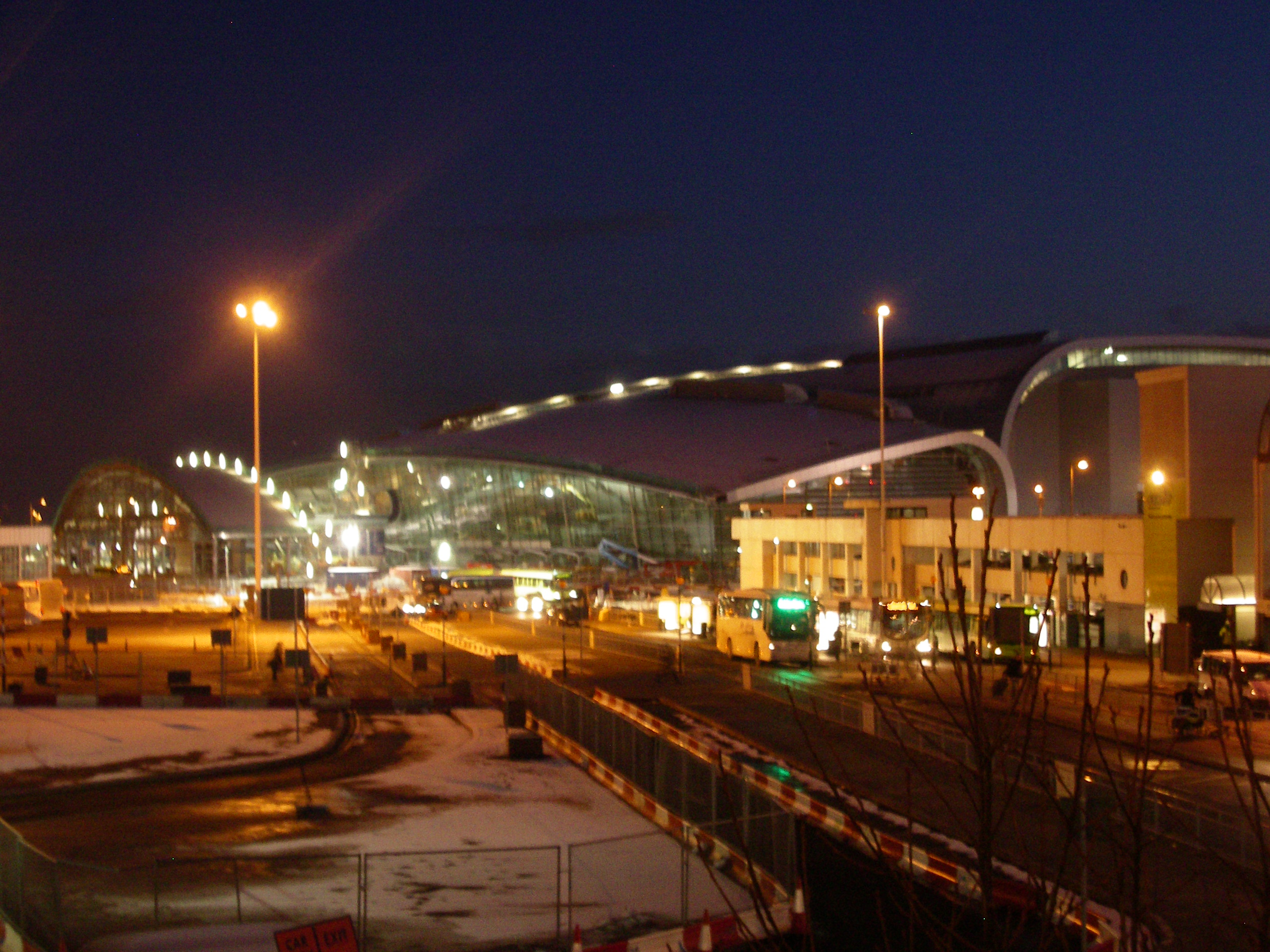 Image taken by myself on 5th jan 2009